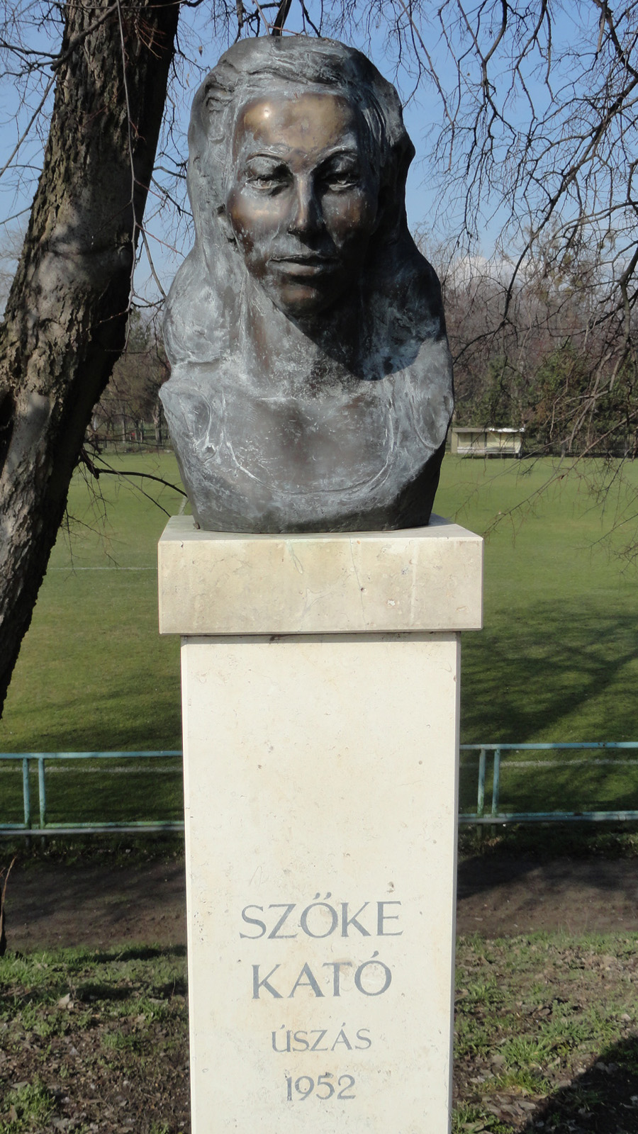 Kató Szőke, hungarian swimmer. 1952 Summer Olympics - Gold Medal Winner